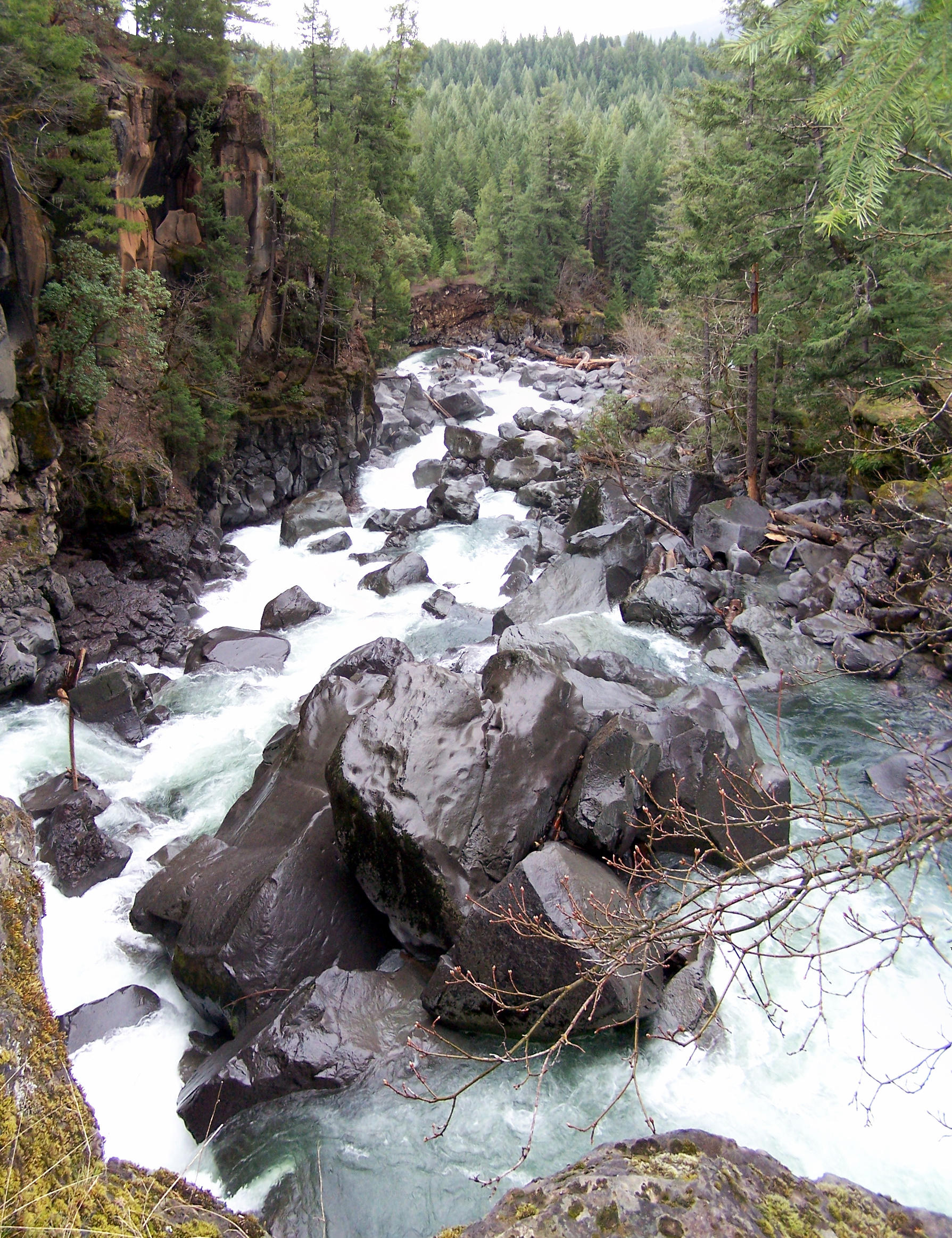 A small vertical panorama of the Avenue of the Giant Boulders in the Prospect State Scenic Viewpoint.